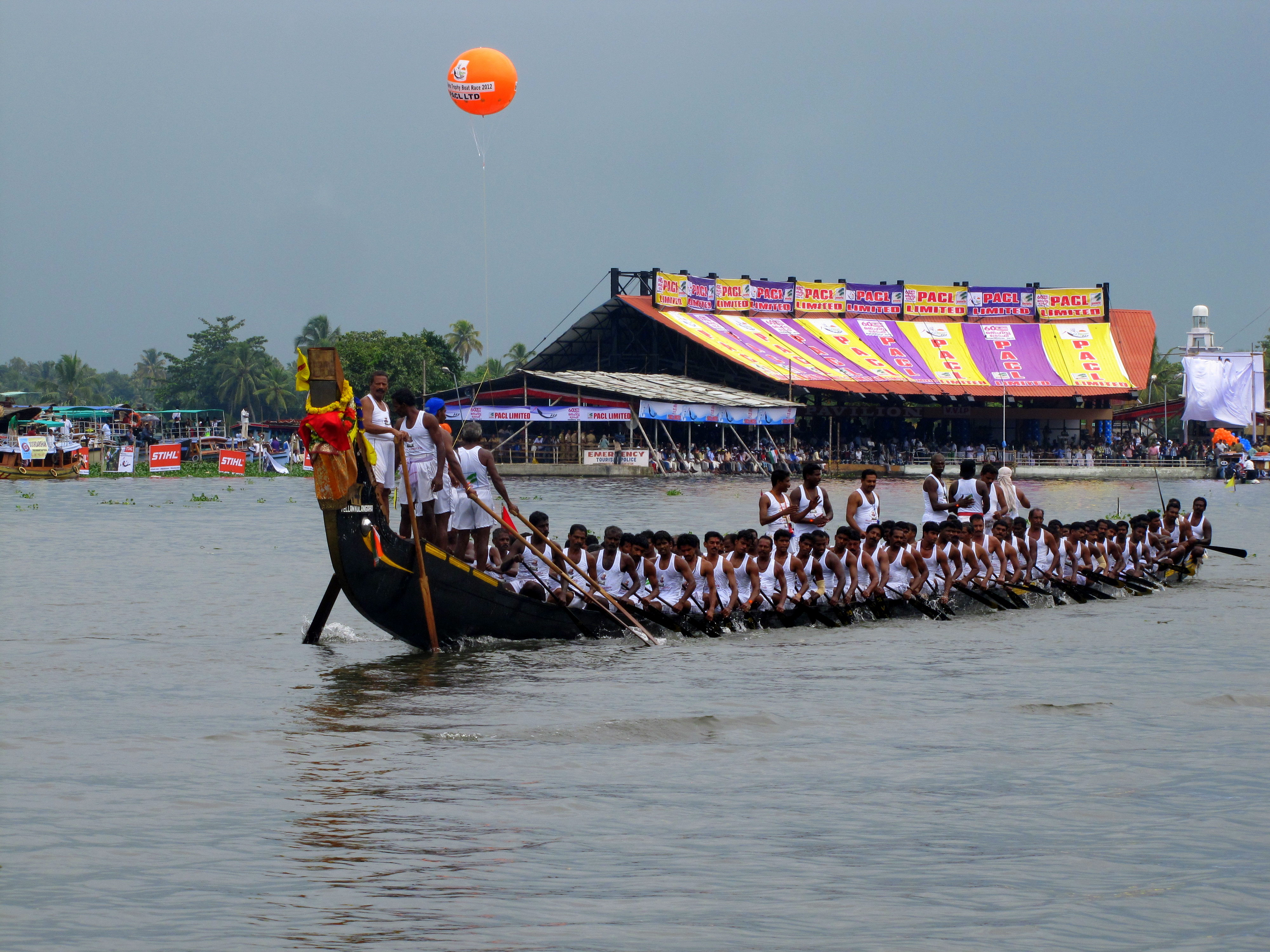 The Nehru Trophy Boat Race is a popular Vallam Kali held in the Punnamada Lake near Alappuzha, Kerala, India. Vallam Kali or Vallamkali literally means boat play/game, but can be translated to boat race in English. The most popular event of the race is the competition of Chundan Vallams (snake boats). Hence the race is also known as Snake Boat Race in English. Other types boats which participate in various events of the race are Churulan Vallam, Iruttukuthy Vallam, Odi Vallam, Veppu Vallam (Vaipu Vallam), Vadakkanody Vallam and Kochu Vallam. The race conducted on the second Saturday of August every year is a major tourist attraction.